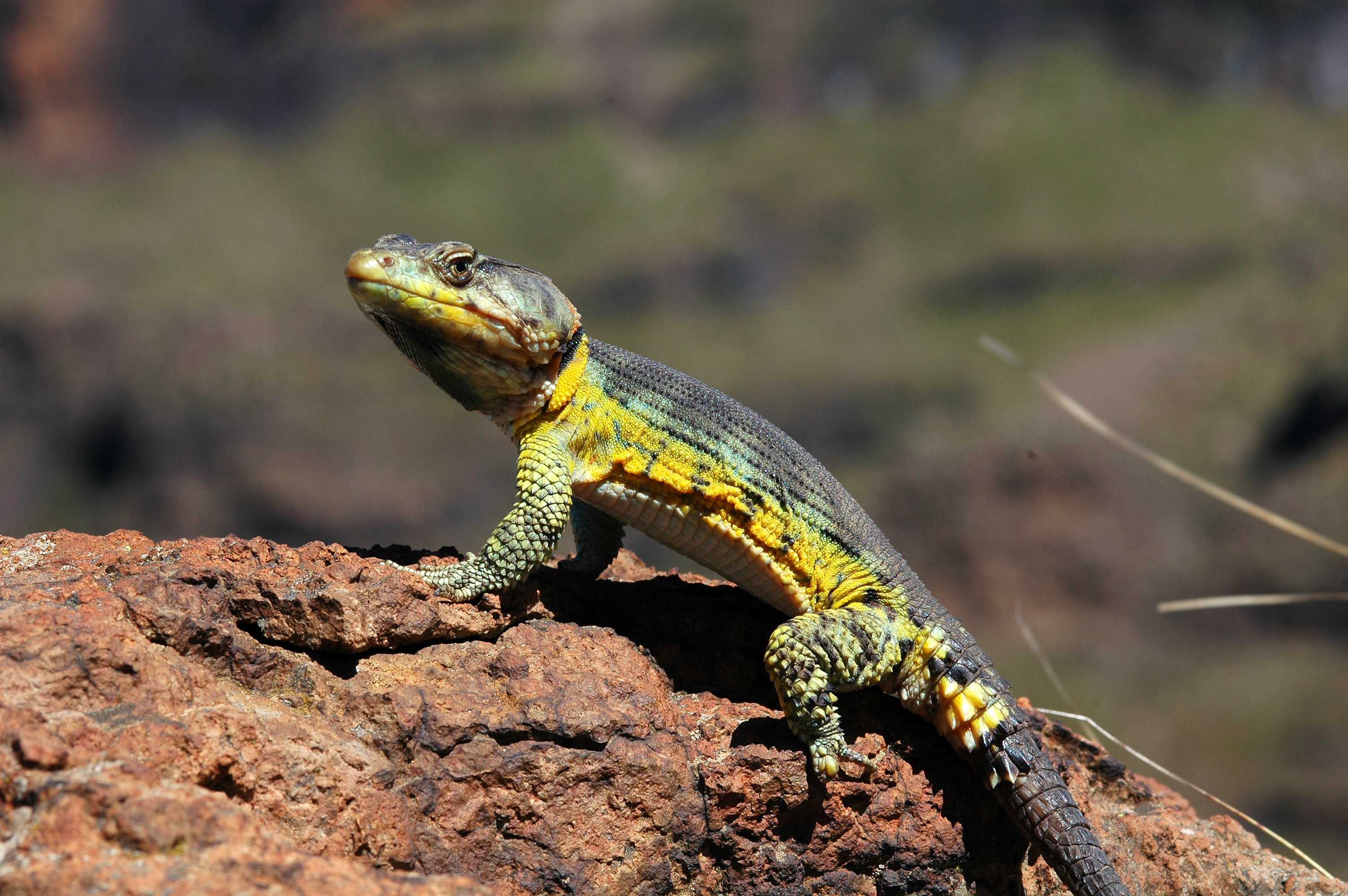 A male Drakensberg Crag Lizard in the uKahlamba-Drakensberg Park on the Lesotho border